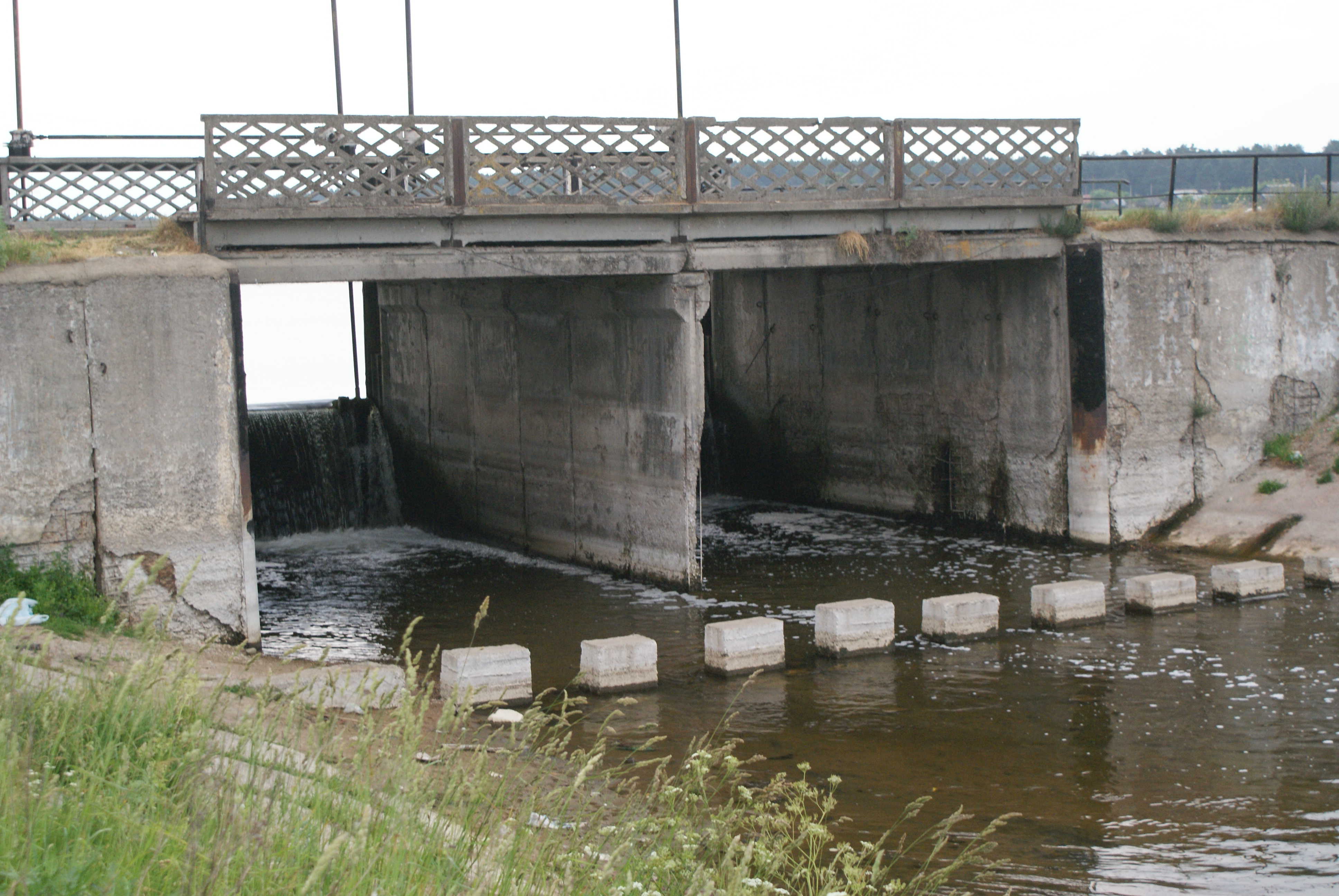 River Volma, Smalavičy district